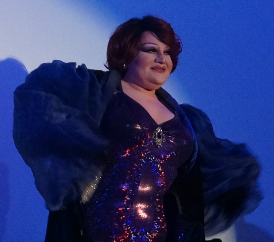 Victoria "Porkchop" Parker at Louisville Queens for the Cure Drag Show